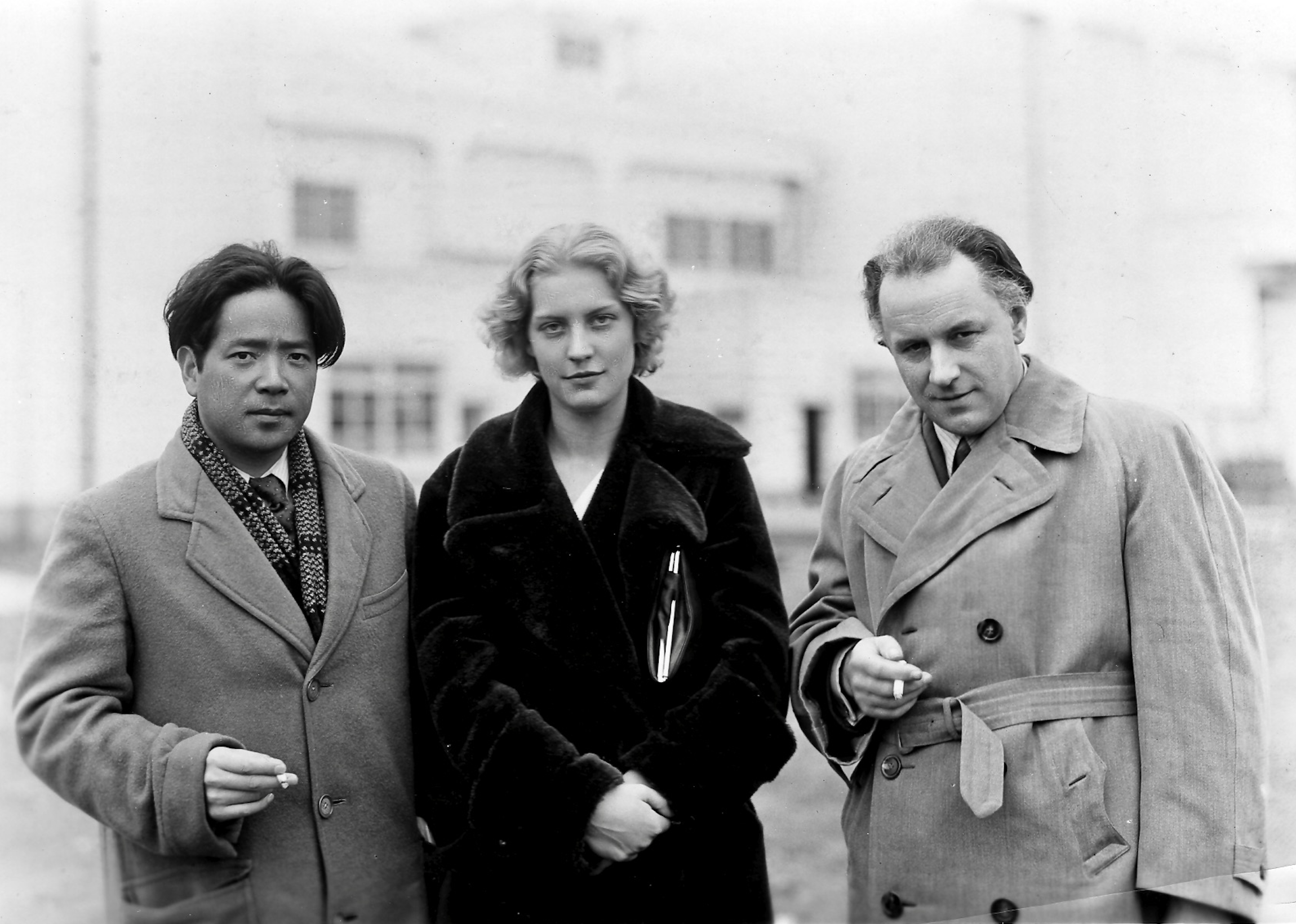 Mr. Kosugi, the German film actress Ruth Eweler (1913–1947) and the German film director Arnold Fanck (1889–1974) in Japan on the occasion of the shooting of the film The Daughter of the Samurai (新しき土), which was produced in German and Japanese language versions.